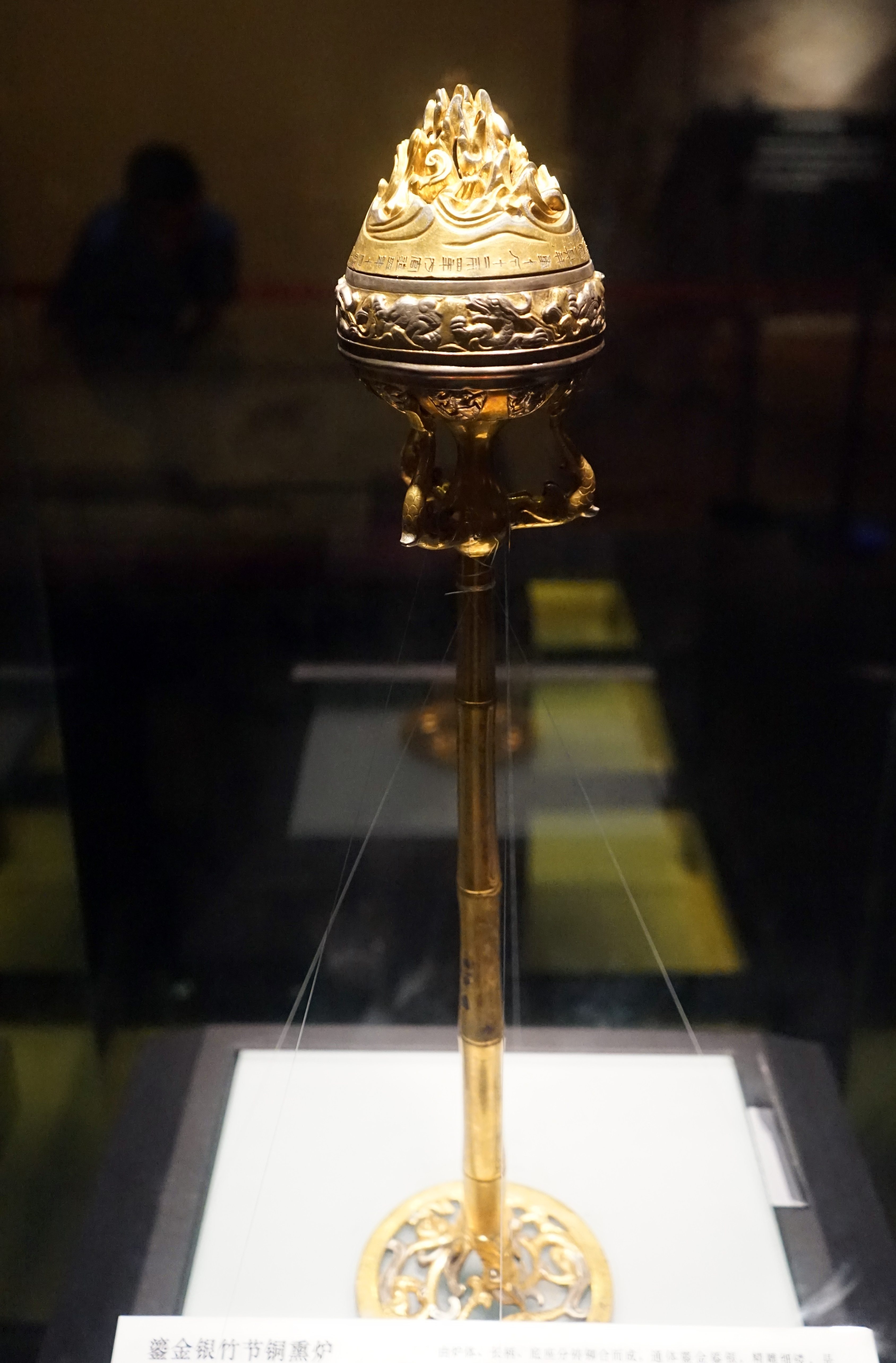 Bronze Bamboo-joint-shaped Censer with Gilded Gold and Silver. Western Han Dynasty. No.1 anonymous tomb, Maolin Mausoleum. Xingping City. A stem and a pedestal, the three parts are riveted together. Inscriptions on the base of the lid and on the edge of the foot. The inscriptions associate it with the family of Princess Yangxin, probably was the reward Emperor Wudi bestowed upon his sister and her husband Wei Qing.